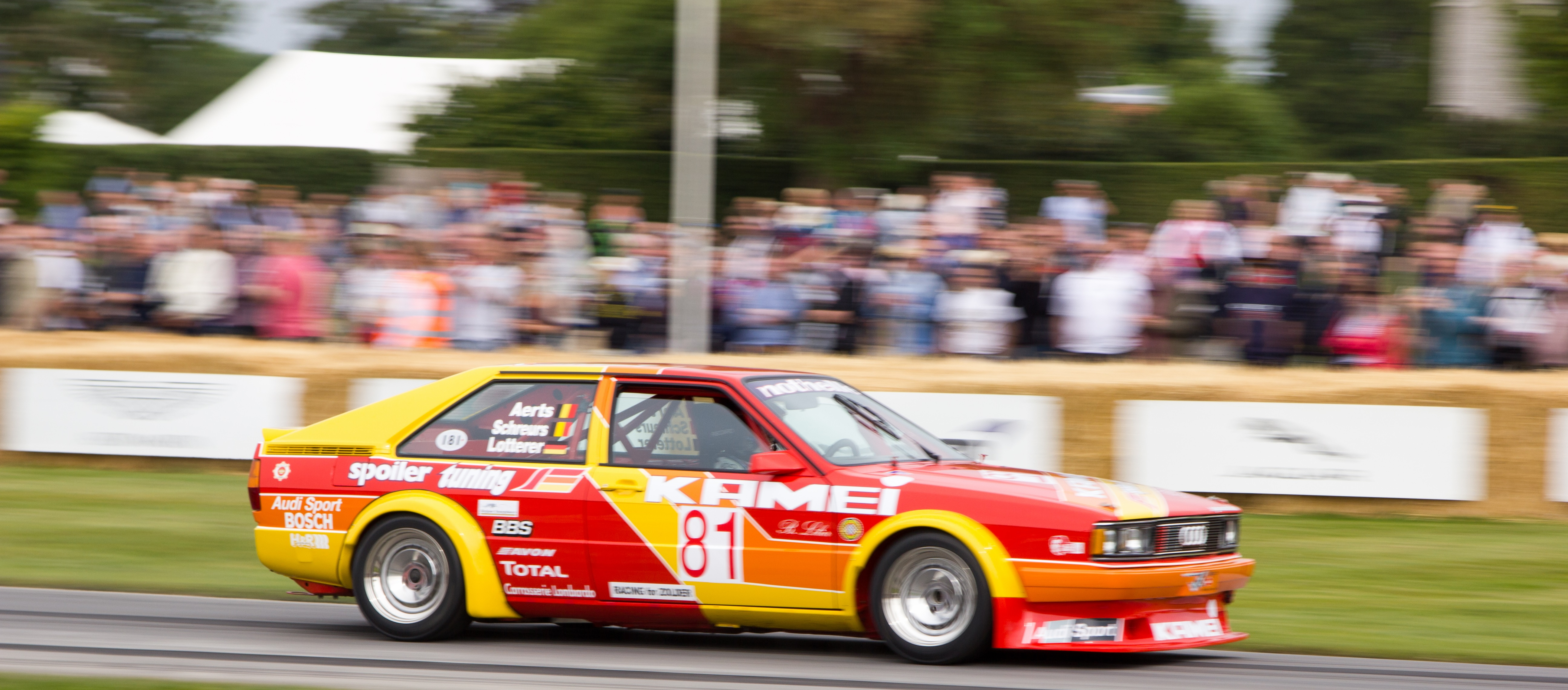 An Audi Coupé B2 Group 2 Touring Car at the 2014 Goodwood Festival of Speed.